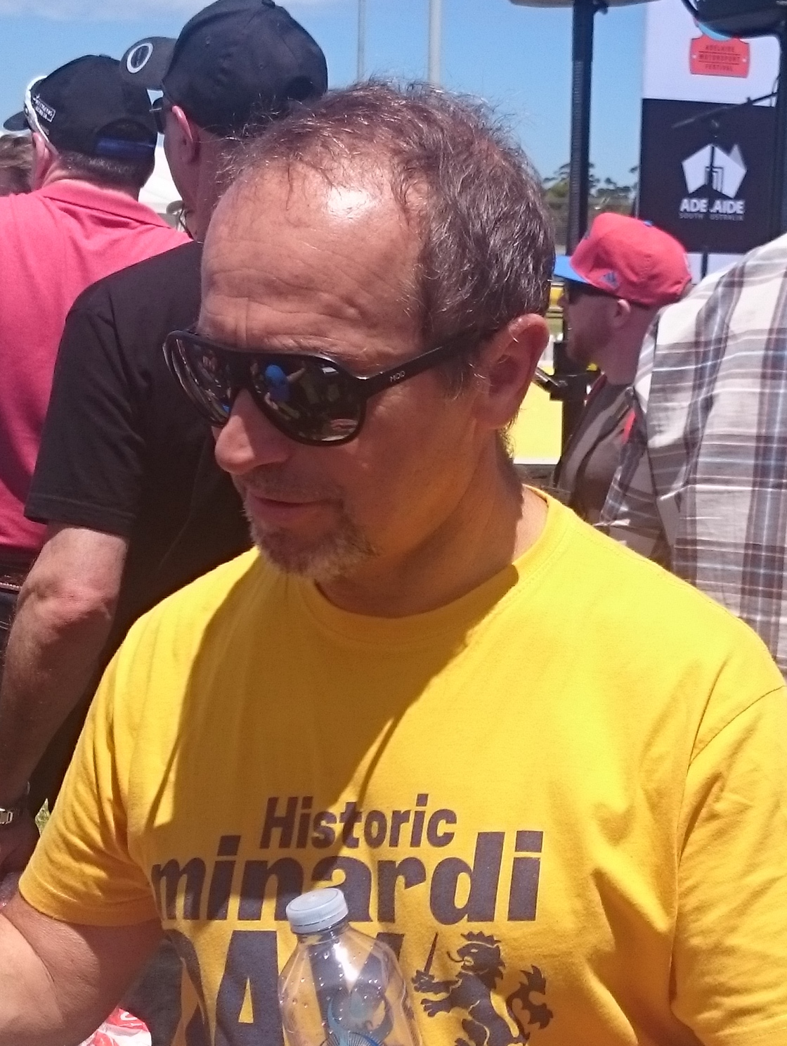 Pierluigi Martini at the 2016 Adelaide Motorsport Festival